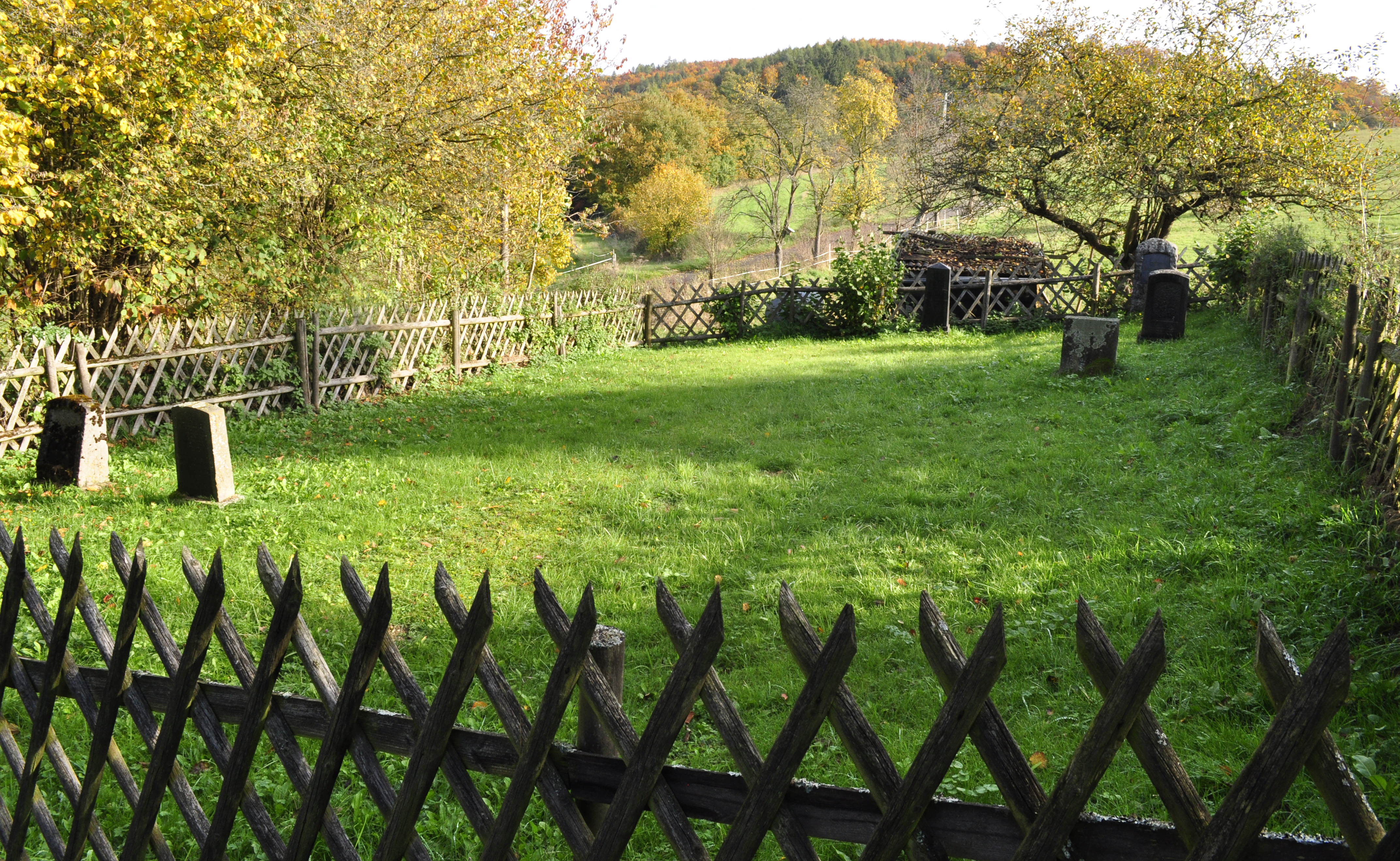 Jewish Cemetery Wasenbach